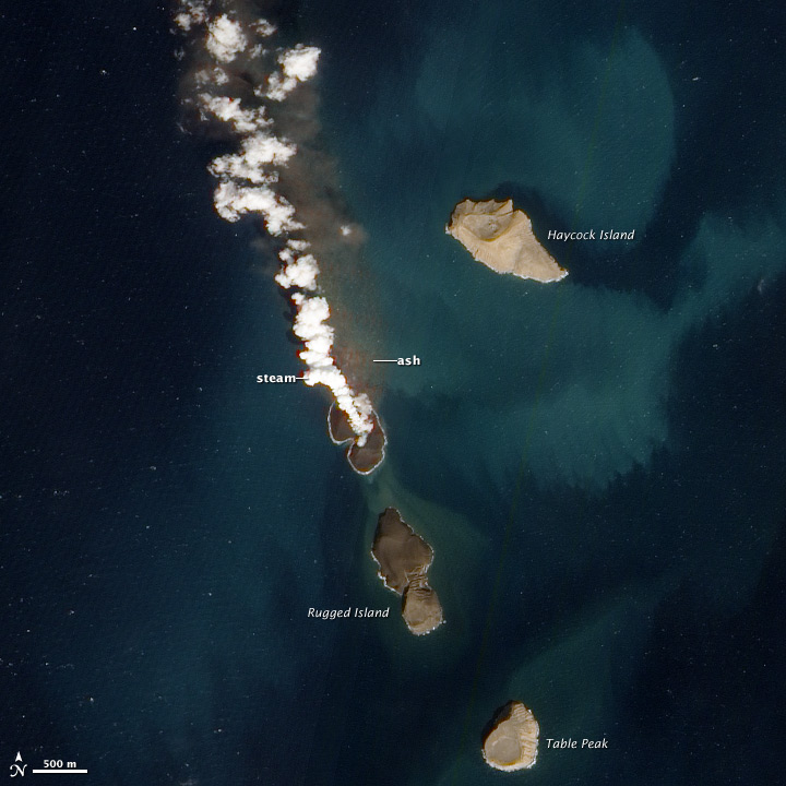 New volcanic island in the Red Sea. A new island is forming in the Red Sea. About 60 kilometers (40 miles) from the coast of Yemen, an undersea eruption began in mid-December 2011. Local fishermen reported an eruption near the island of Saba, while satellites captured a white plume rising from the sea, and a pulse of sulfor dioxide. The activity was located on the northern edge of the Zubair Islands .